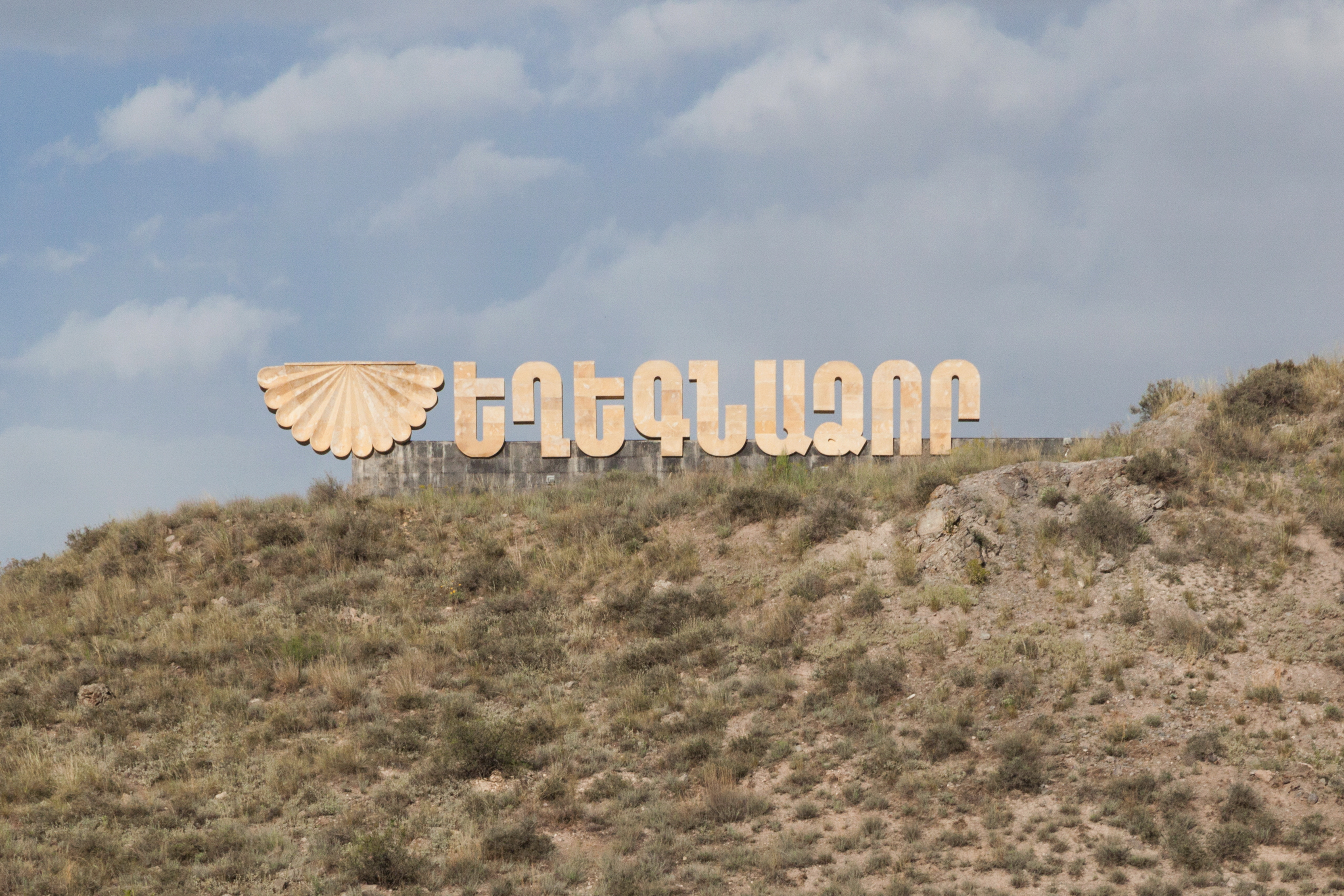 Landscapes seen from the road M2 - entrance to the Yeghegnadzor city. Vayots Dzor Province, Armenia.